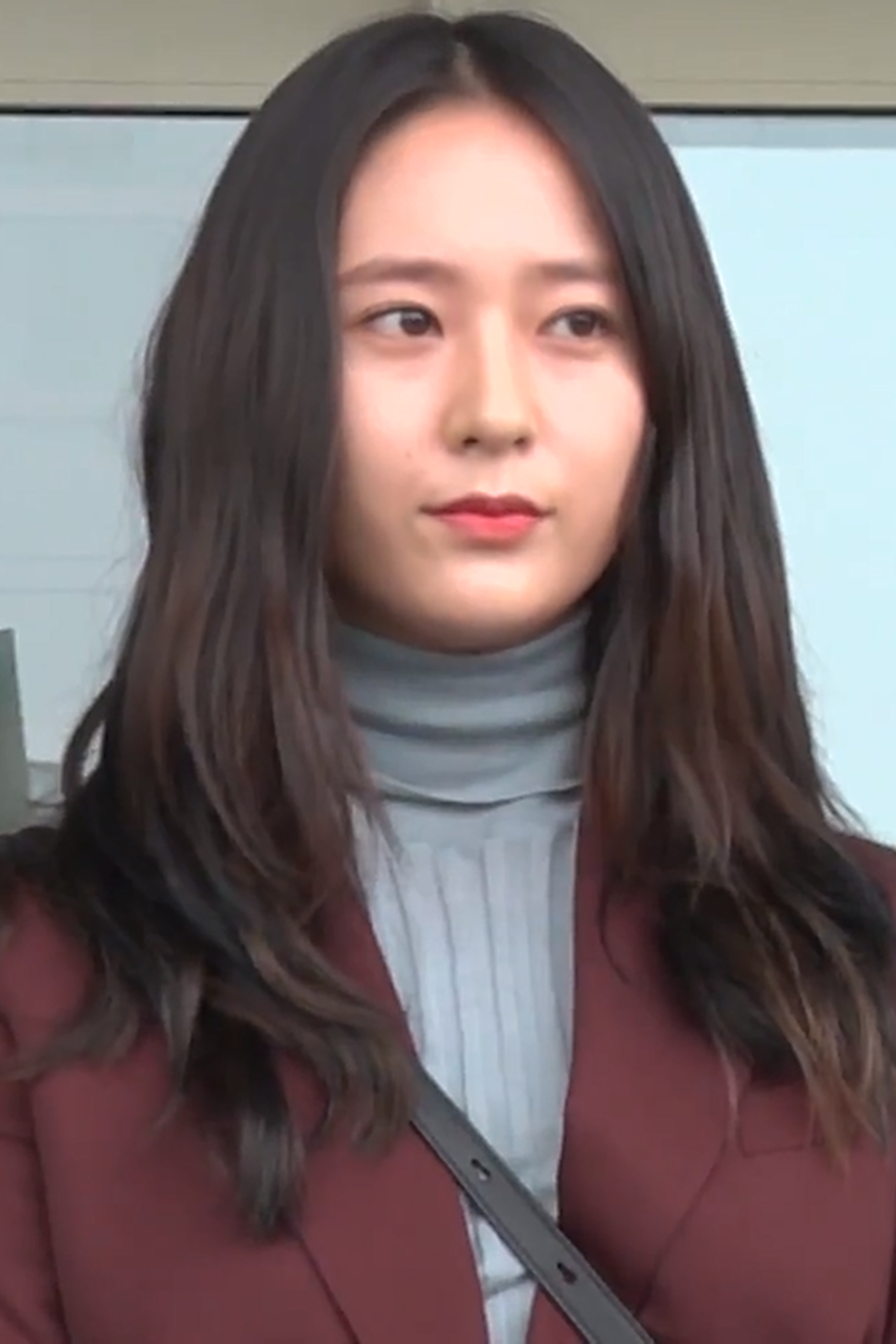 Krystal Jung leaving Incheon International Airport on September 21, 2018.